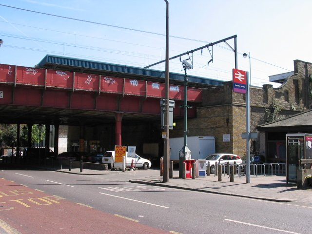 Hackney Downs railway station